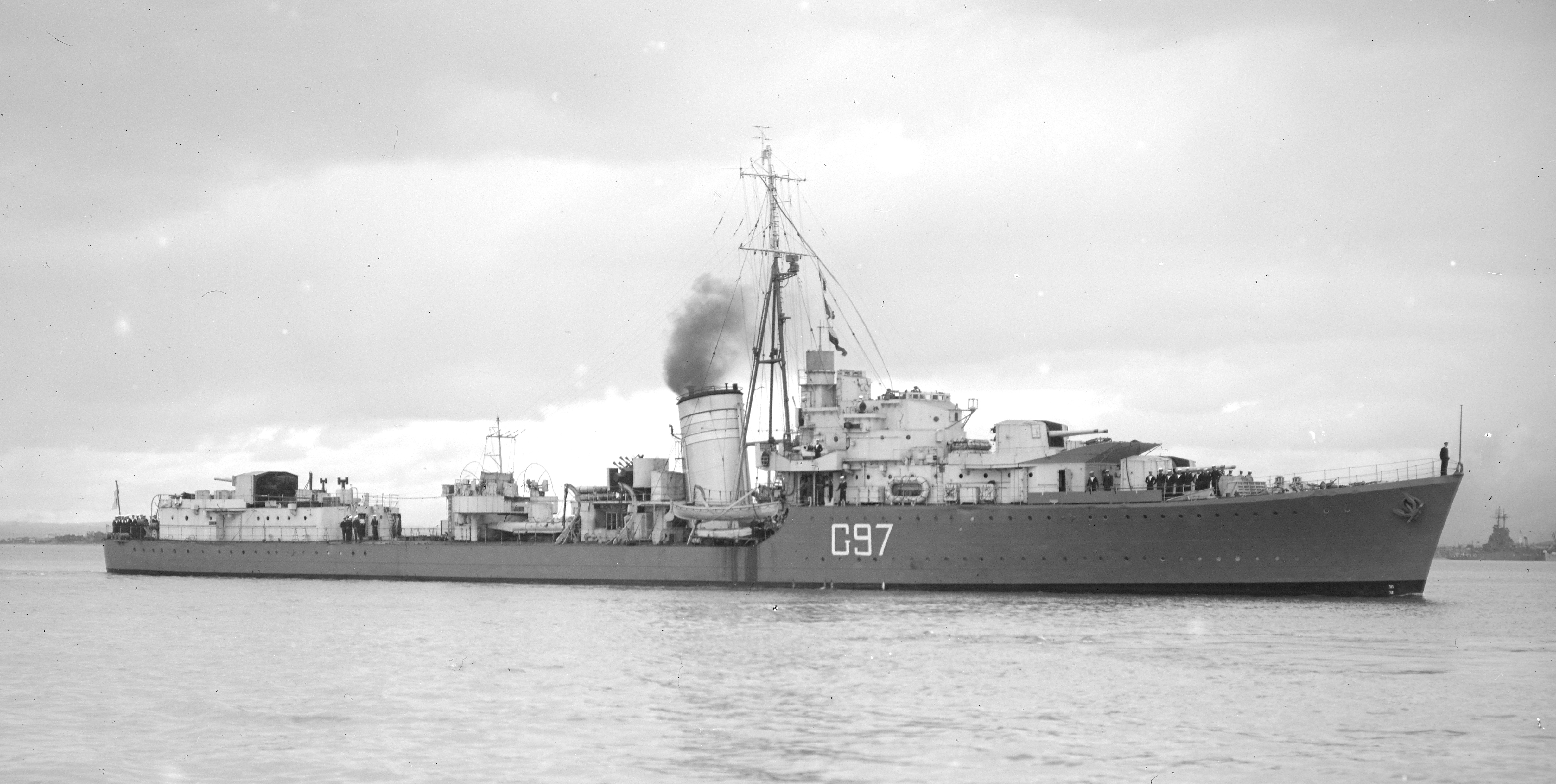 HMS Napier